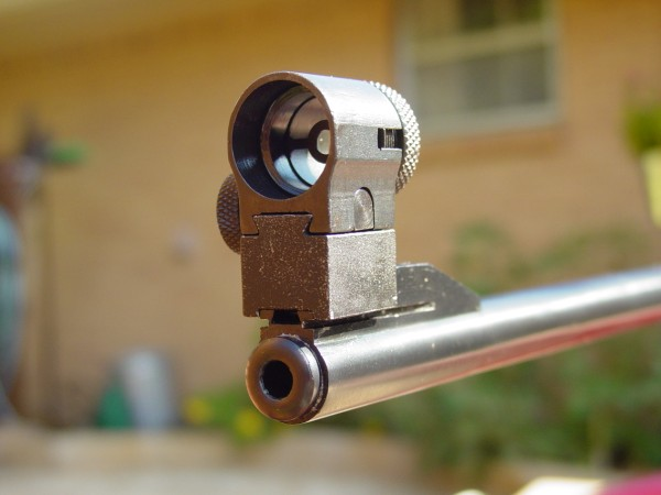 "Those are BRNO target sights on a CZ Super BRNO 2500." Given to me under GFDL by author User:Mr_Christopher